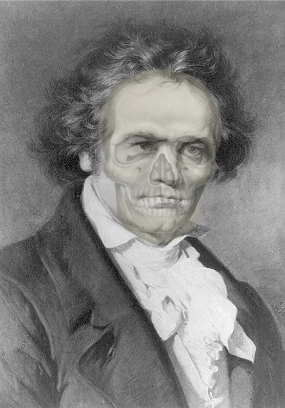 superimposition based on [1] [2] [3]